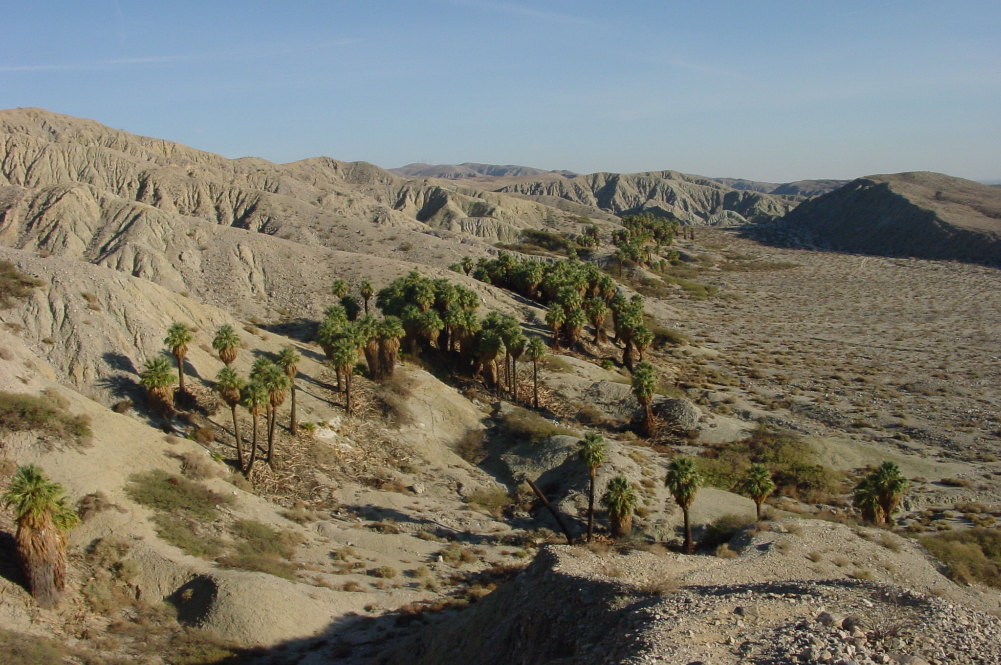 Pushawalla Palms Canyon in Coachella Valley Preserve.